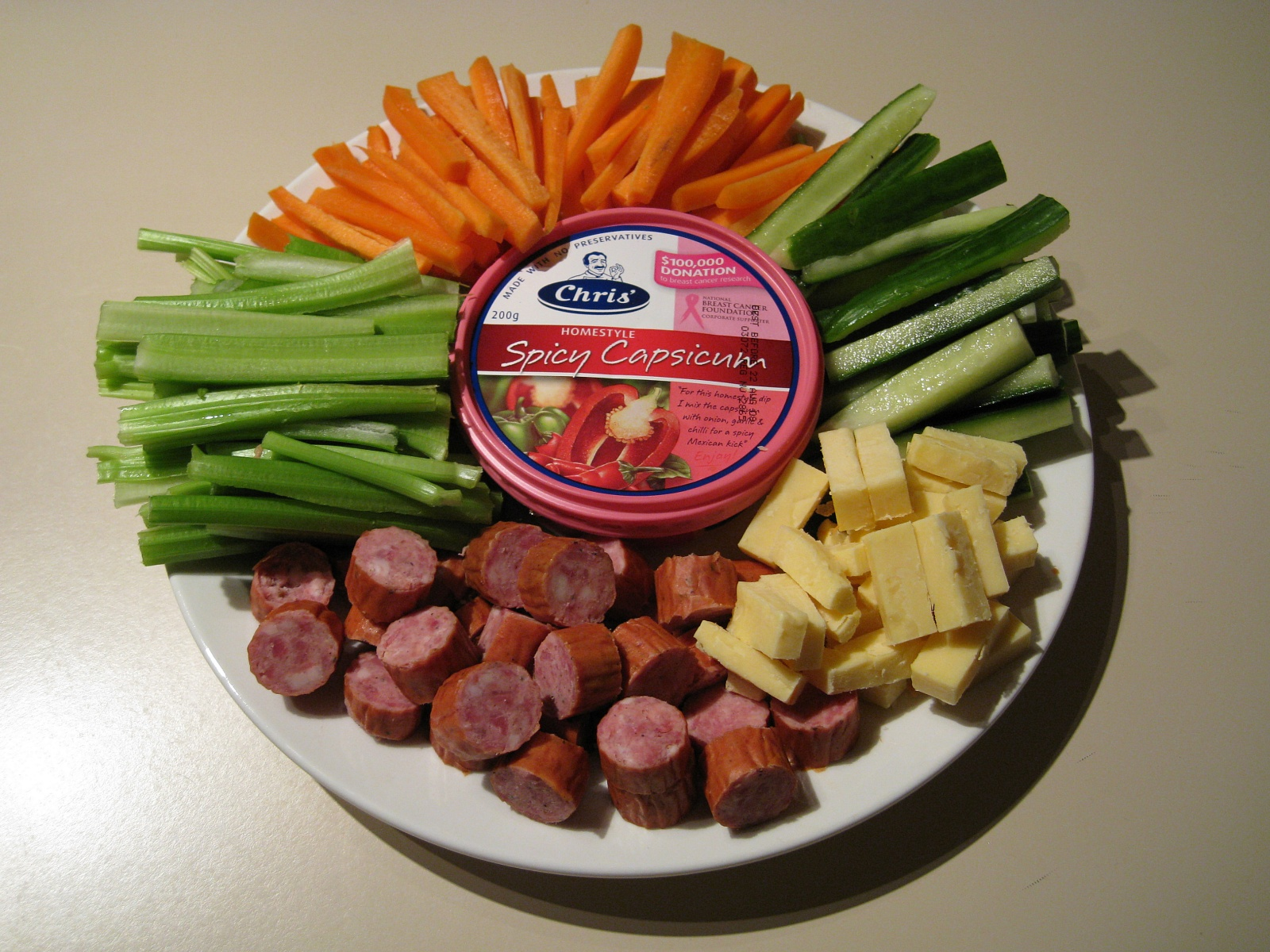 Mixed platter of celery, carrot, cucumber, cheddar cheese, kabana and Chris' spicy capsicum dip.